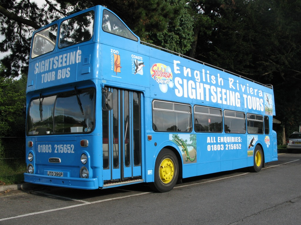 JTD 395P is a Daimler Fleetline that had its top removed to run on seafront services in Southend, but is now found operating the English Riviera Tours in Devon, England. It is seen parked between trips at Torquay railway station. Torbay has been marketed as "The English Riviera" for many years. (DVLA) Daimler ?cc Heavy Oil first registered 1 May 1976